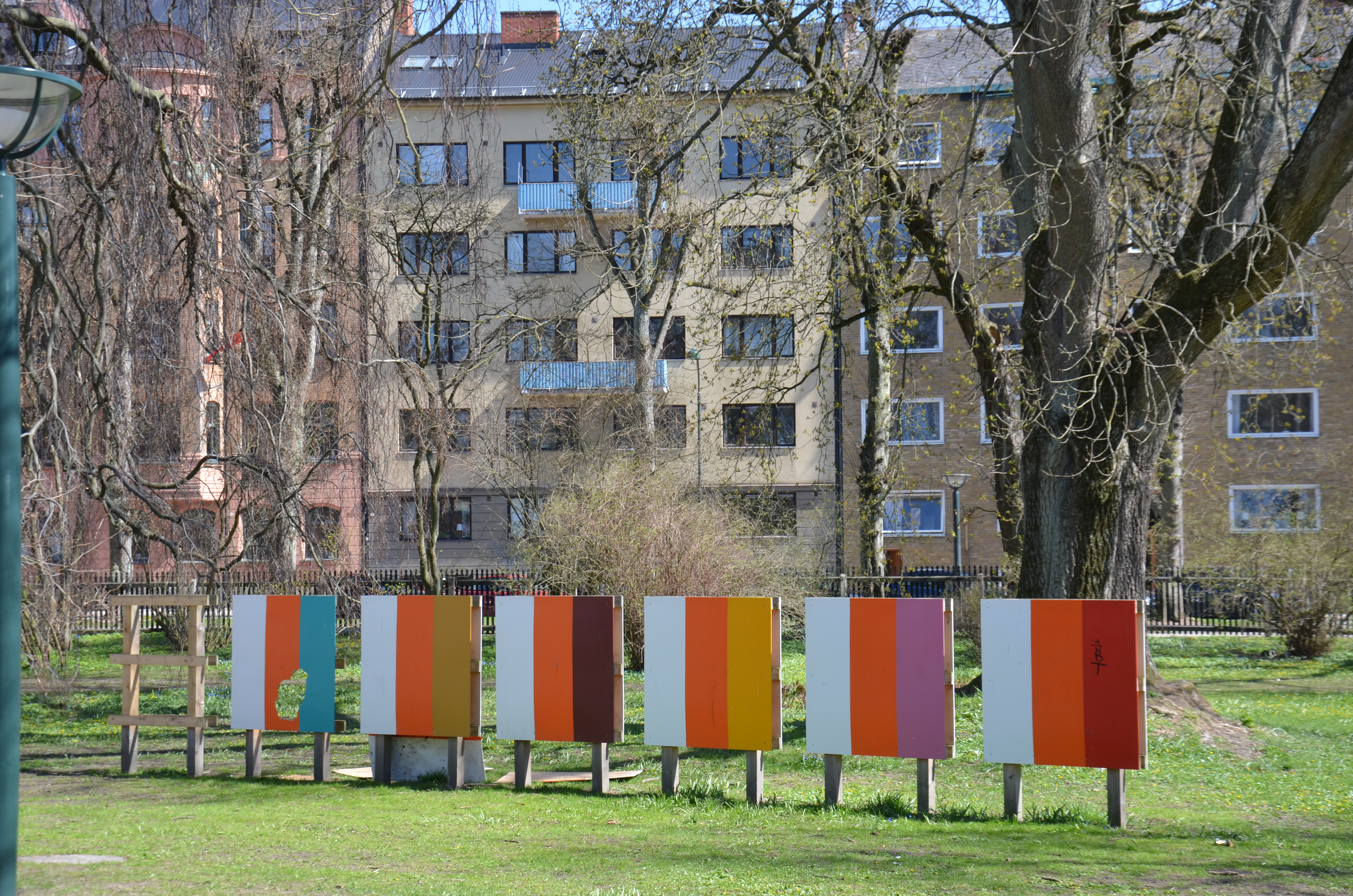 Poul Gernes' Utan titel, 1965, Observatorieparken, Lund (utplacerad 2011)